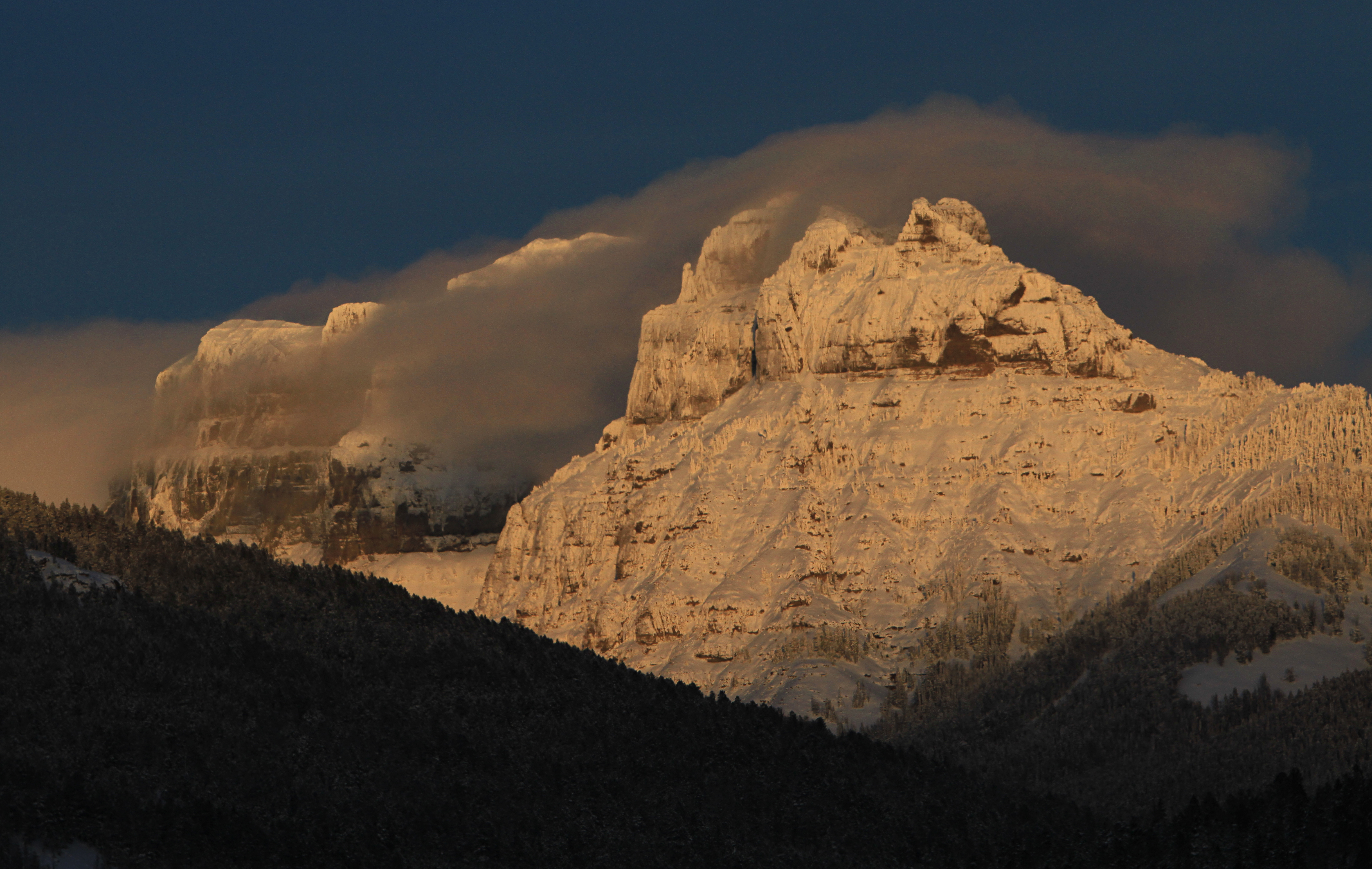 Amphitheater Mountain; Jim Peaco; December 2013; Catalog #19230d; Original #IMG_9735